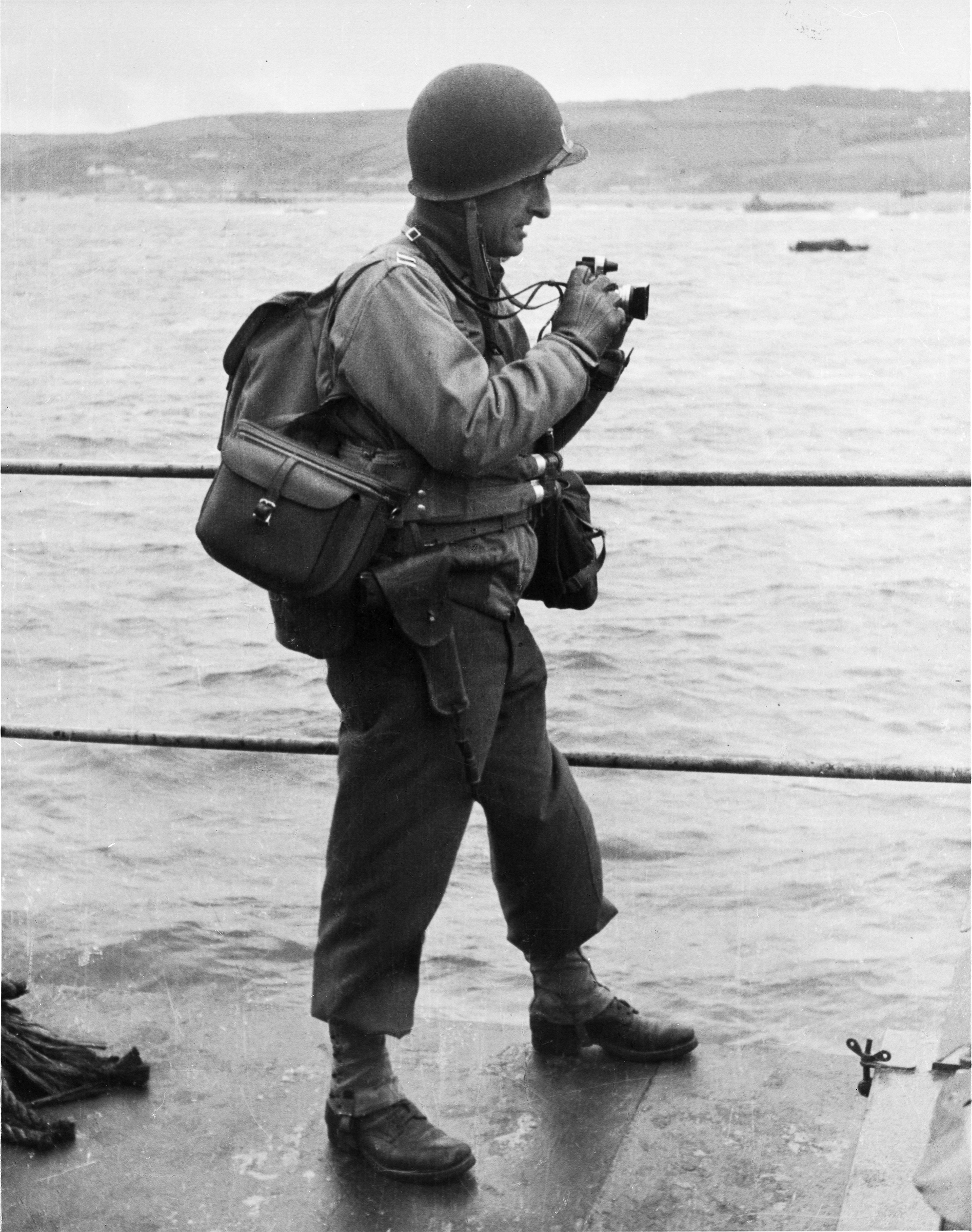 D-Day Wall